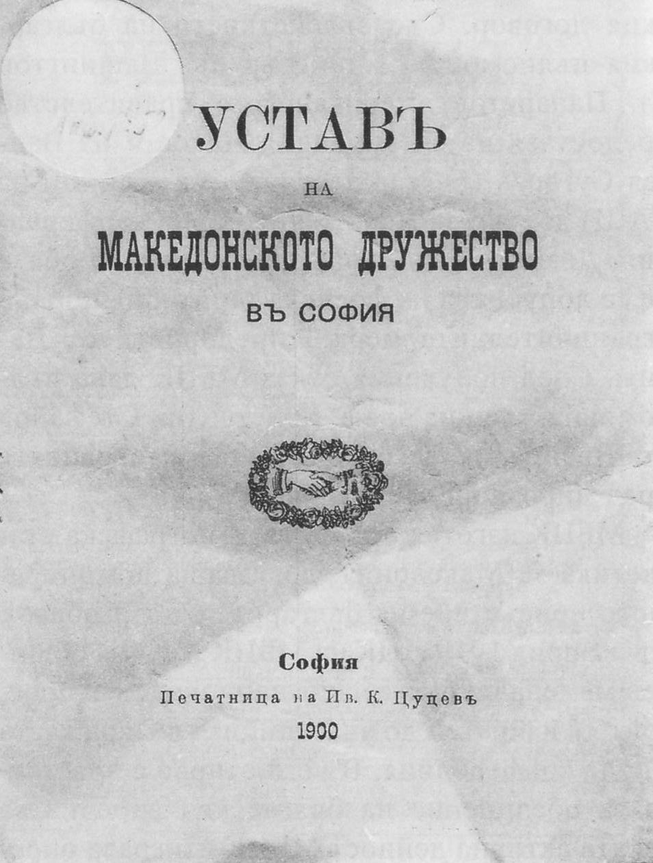 Statutes of the Macedonian Organization, 1895